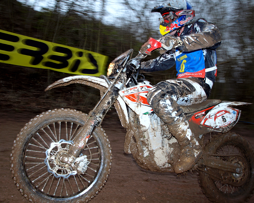 DOUGIE LAMPKIN at WOR Tough One 2009. World Xtreme Enduro. UK